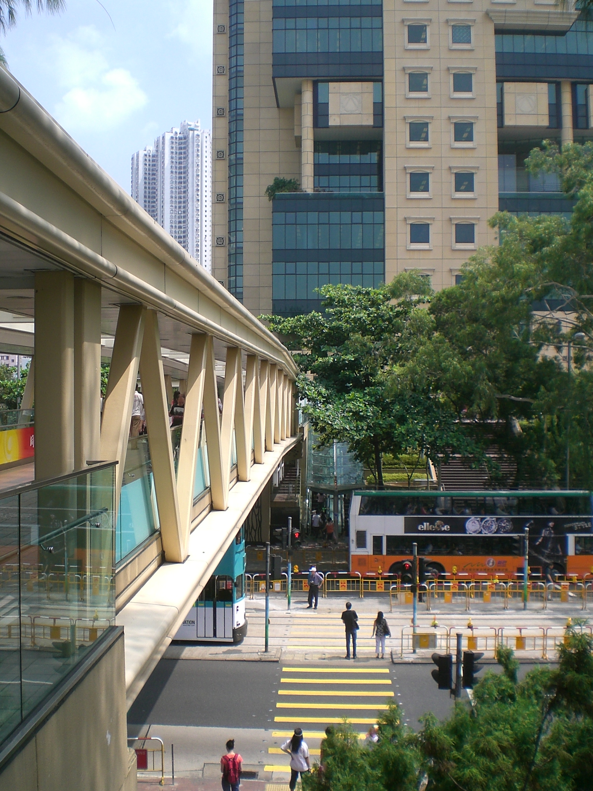 銅鑼灣道往zh:香港中央圖書館之行人天橋